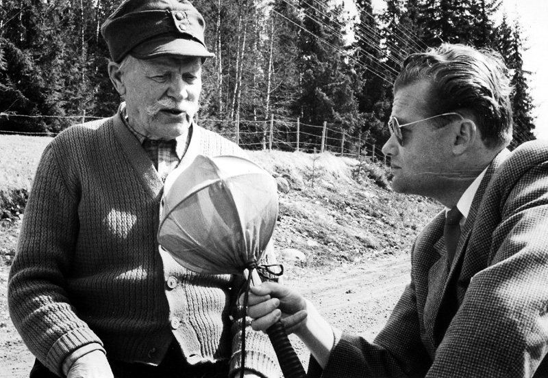 An older man with cardigan, mustach & cap is being interviewed by a younger man with spectacles & microphone